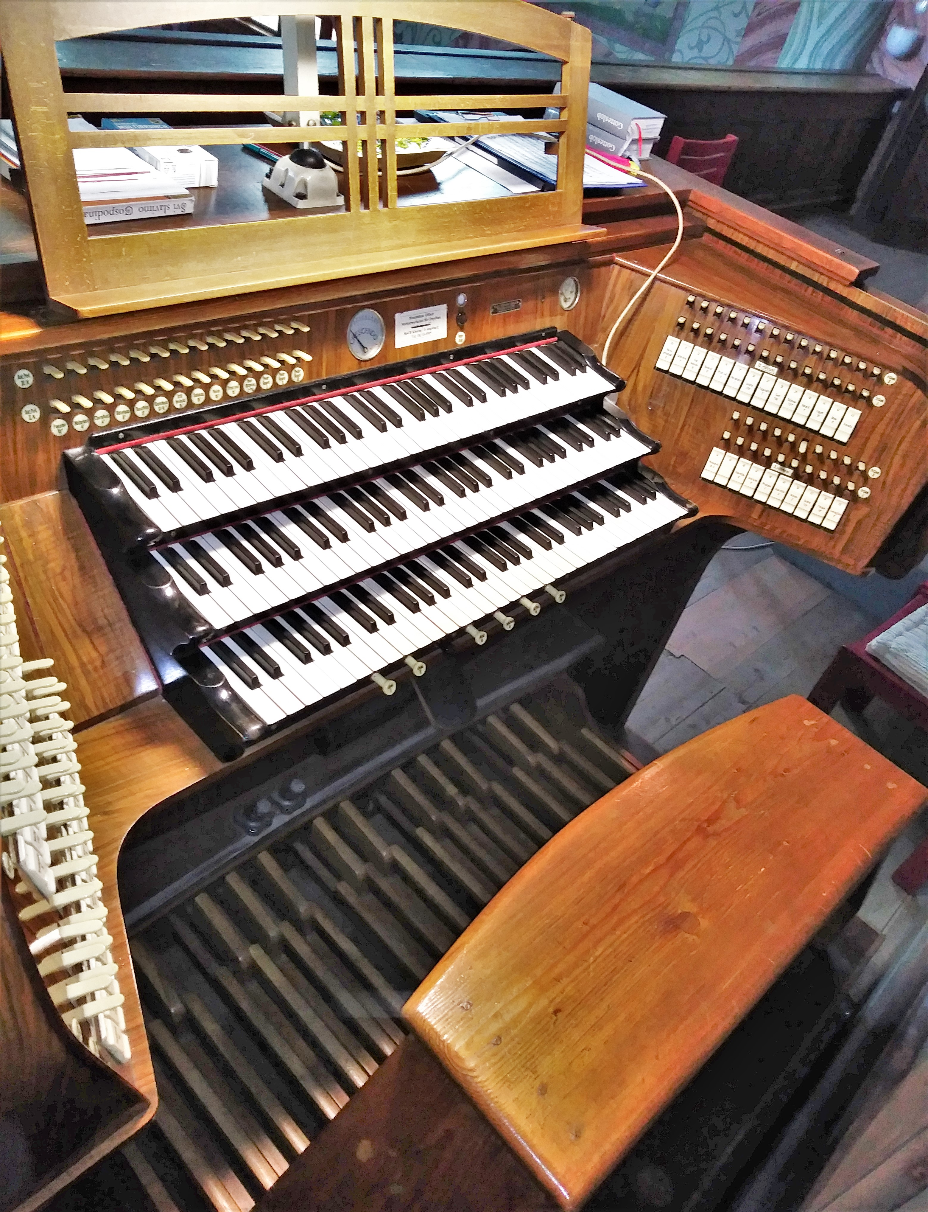 Koulen-Orgel von St. Sebastian (Augsburg)